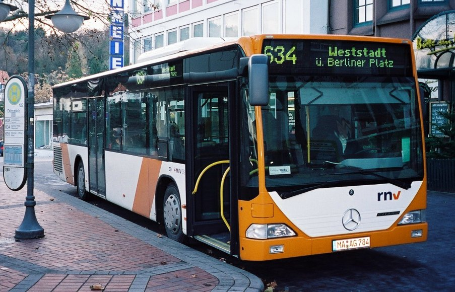 EvoBus/Mercedes-Benz Citaro owned by MVV OEG AG in Weinheim an der Bergstraße, Germany .